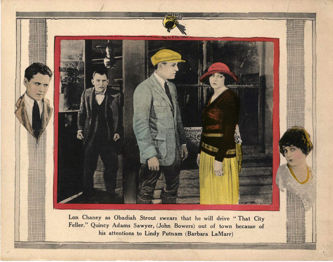 For article Quincy Adams Sawyer, this is a theatrical poster for the 1922 film Quincy Adams Sawyer, and was first published before 1923.